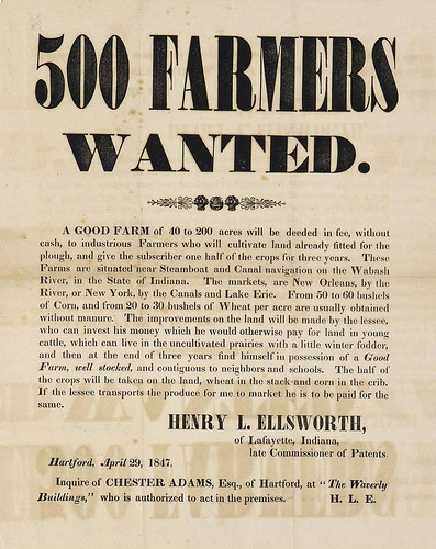 Broadsheet advertising plattes of farmland of 40–200 acres each, for sale by Henry Leavitt Ellsworth, former United States Commissioner of Patents. Lafayette, Indiana. (Retouched by MarmadukePercy)